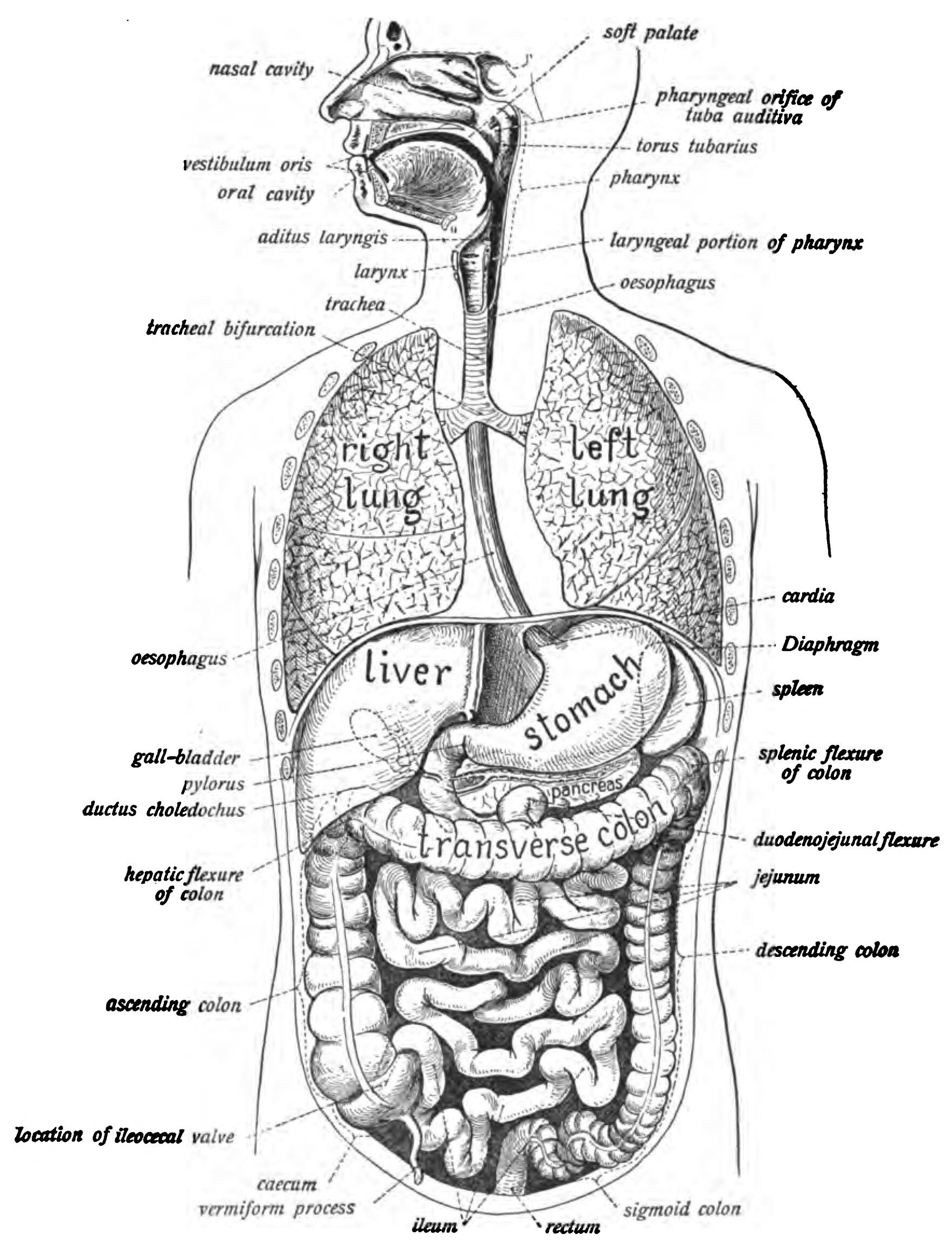 An anatomical illustration from the 1906 edition of Sobotta's Atlas and Text-book of Human Anatomy with English terminology.